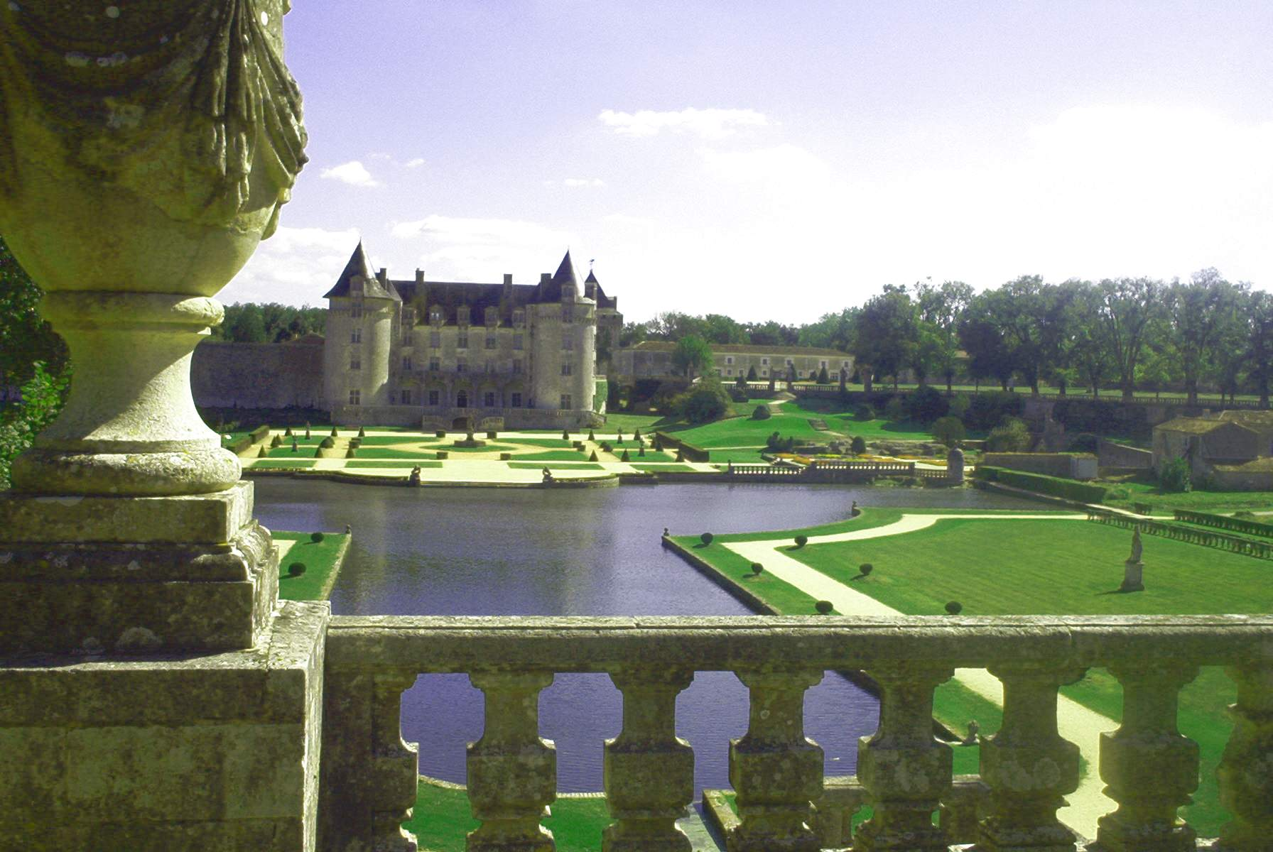 Photographer: User:Ballista